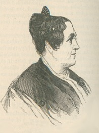 Portrait of Almira Hart Lincoln Phelps.